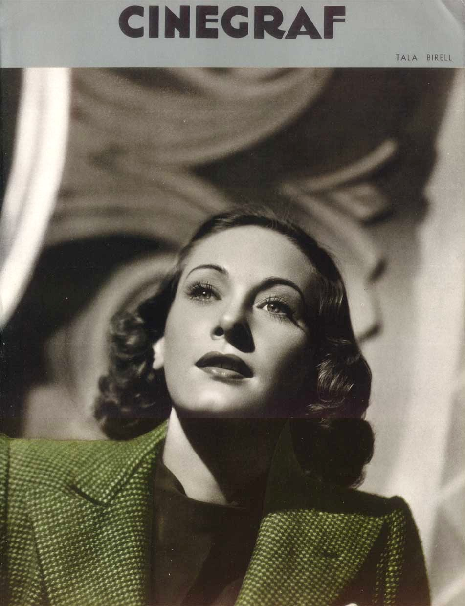 Tala Birell on the Argentinean Magazine cover.